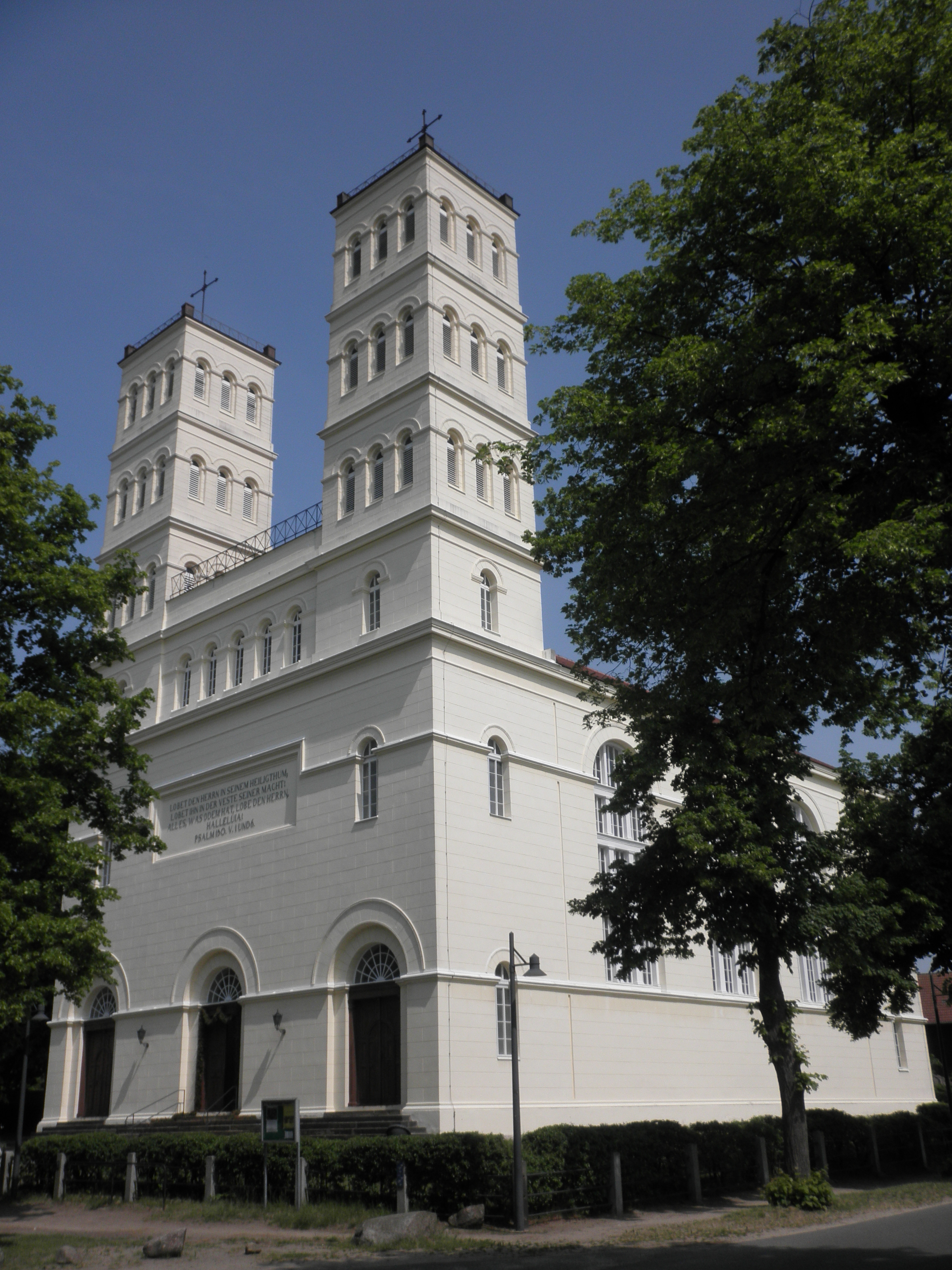 Church in Straupitz, Landkreis Dahme-Spreewald, Brandenburg, Germany.